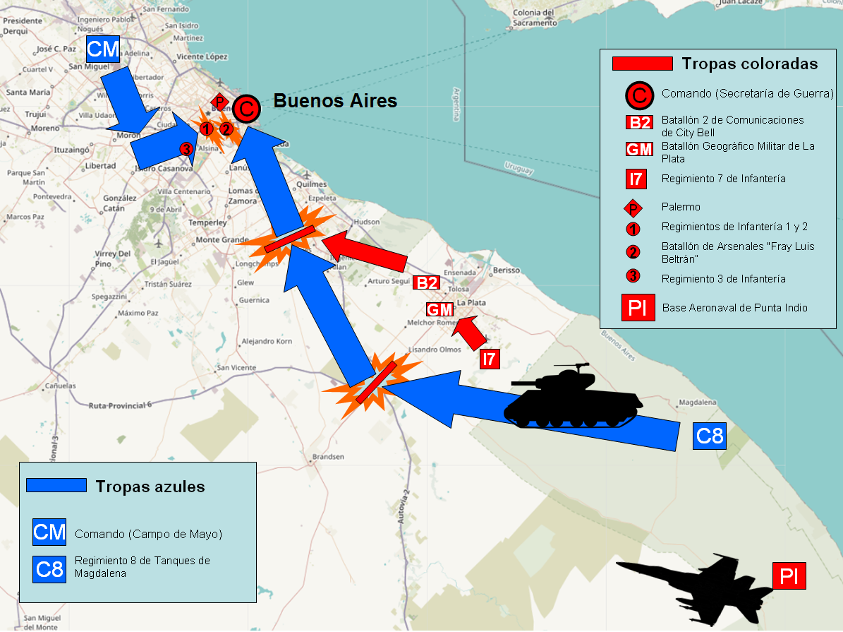 Argentina. September 1962. Battle between Blues and Reds (Azules y Colorados). Map. Sources: Basic map from OpenStreet; airplane and tank from Kissclipart (tank) and Kissclipart (aircraft).